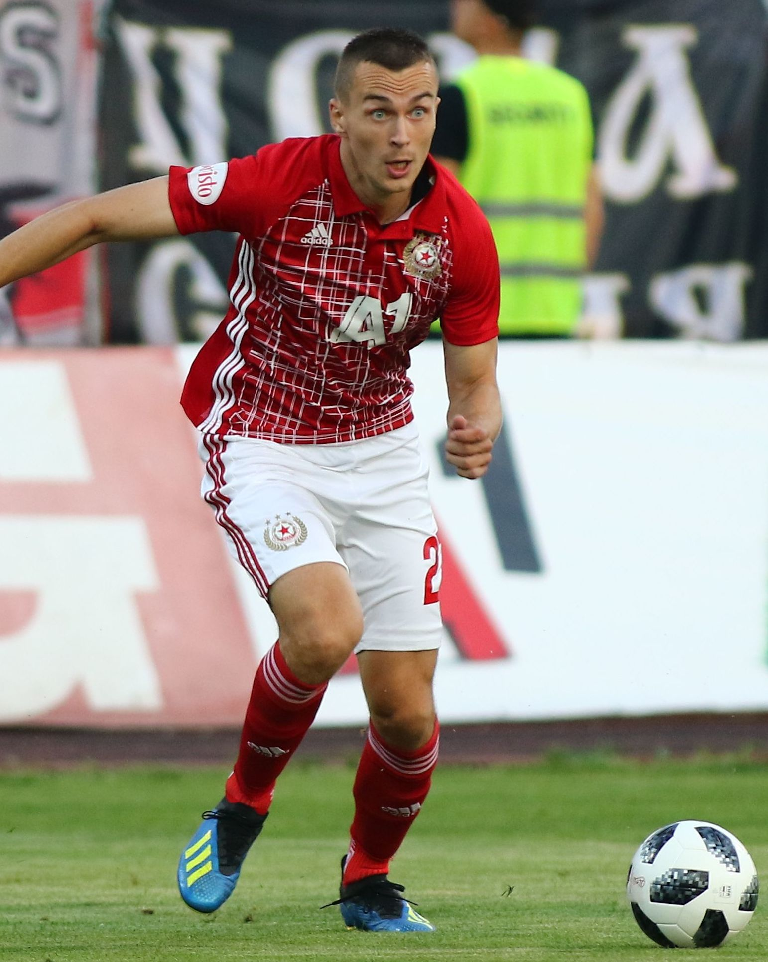 Boris Sekulić (born 21 October 1991) is a Slovak footballer of Serbian origin, who currently plays as defender for CSKA Sofia.